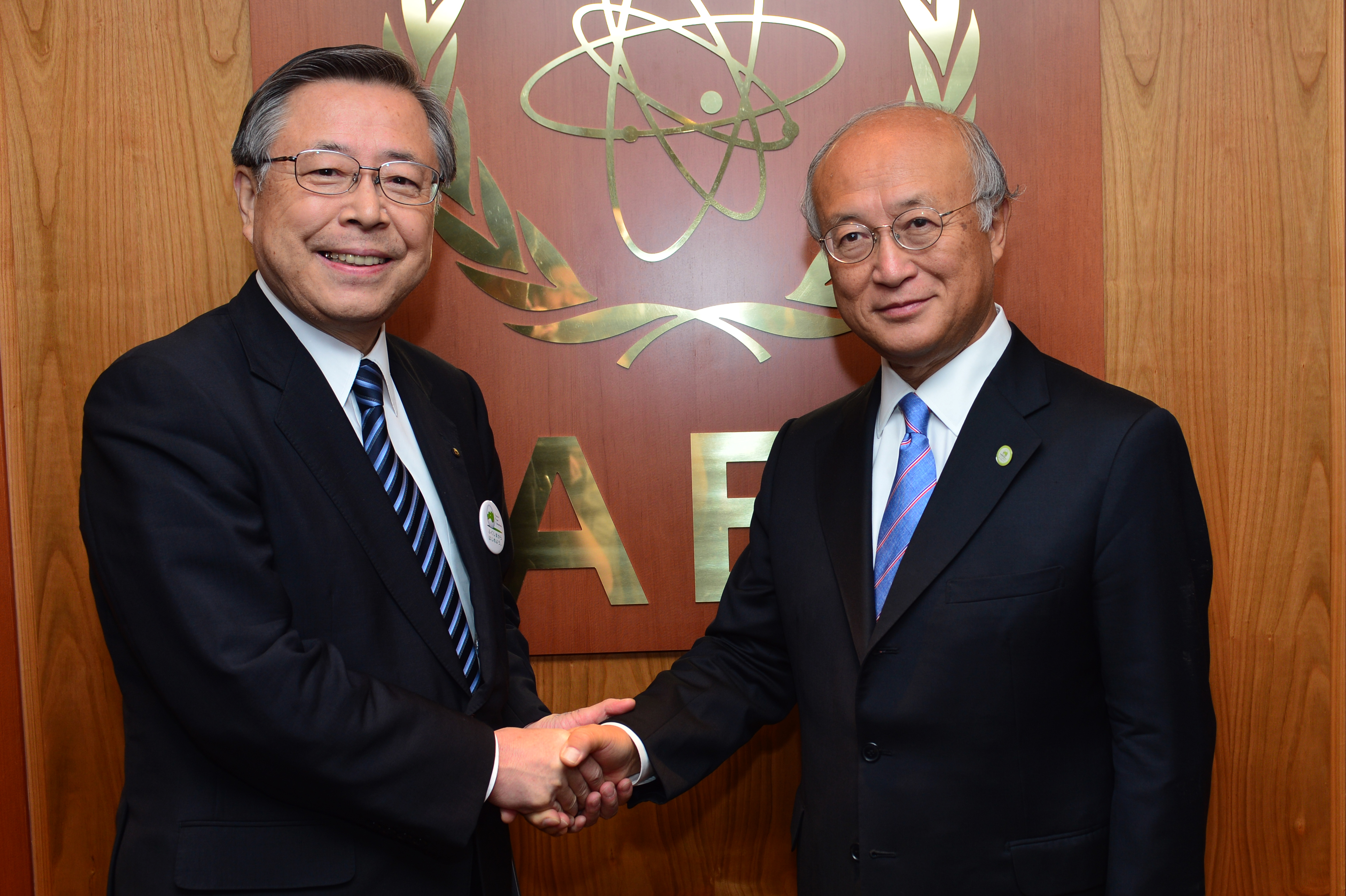 Yūhei Satō, Governor of Fukushima Prefecture, met Yukiya Amano, Director General of the International Atomic Energy Agency, at the International Atomic Energy Agency Headquarters in Vienna City, Vienna State on August 31, 2012.